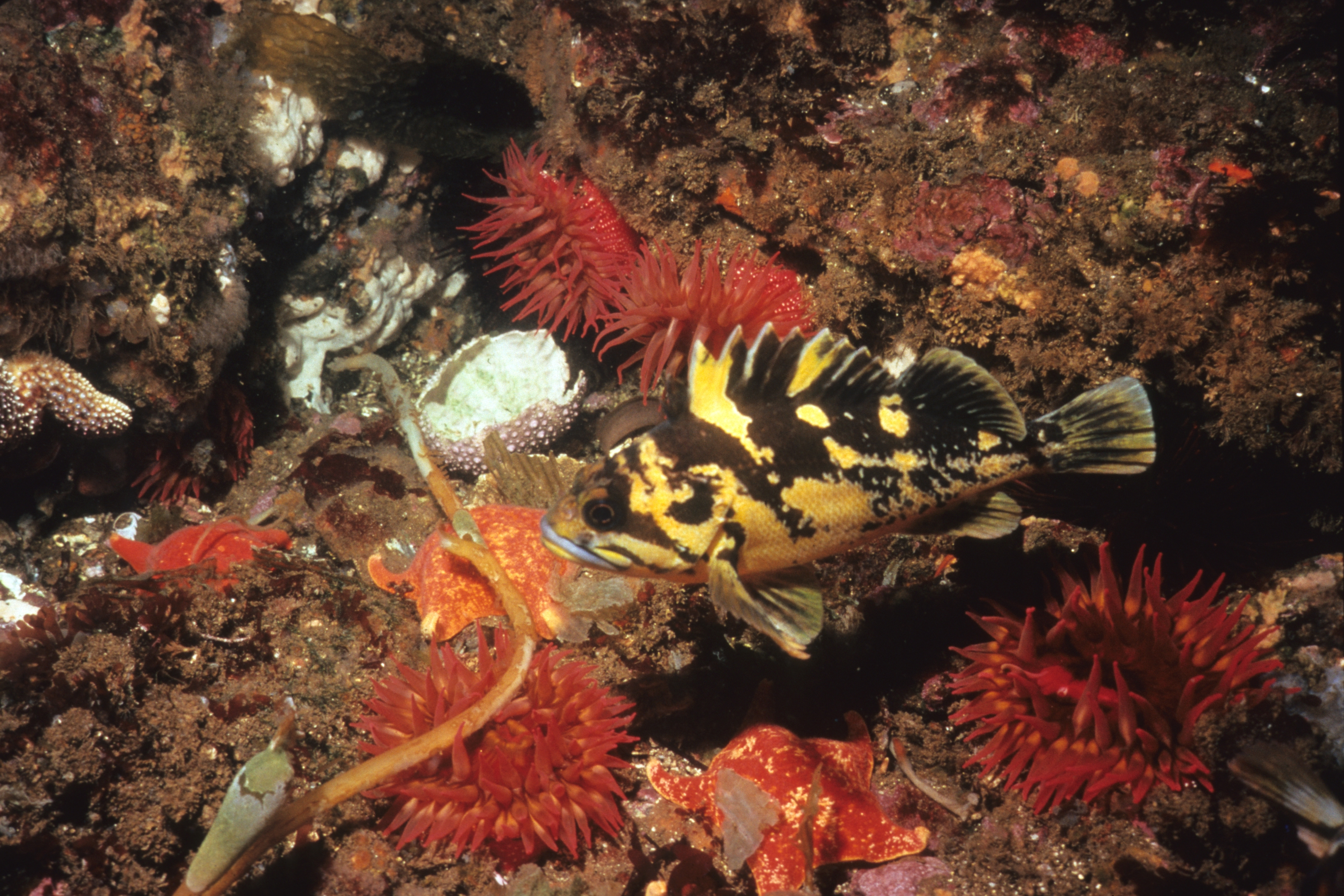 A black and yellow rockfish (Sebastes chrysomelas) among a group of red sea anemones and three orange seastars. California, Monterey area.